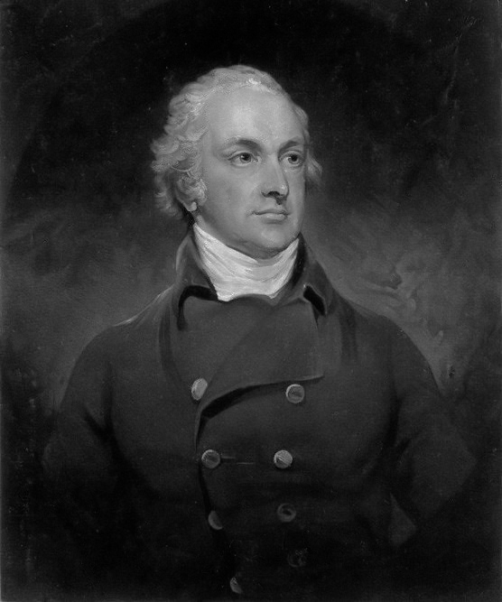 Portrait of Thomas Pelham, 2nd Earl of Chichester by Samuel William Reynolds (1773-1835), after John Hoppner (1758-1810). Published by Samuel William Reynolds.